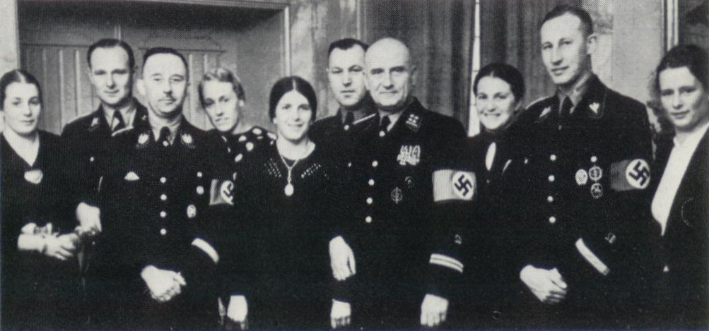 The Wedding of SS-leader Richard Pruchtnow. Left to right (front row): Lina Heydrich, Karl Wolf, Heinrich Himmler, Pruchtnow and his bride Martha Dickert, Reinhard Heydrich.